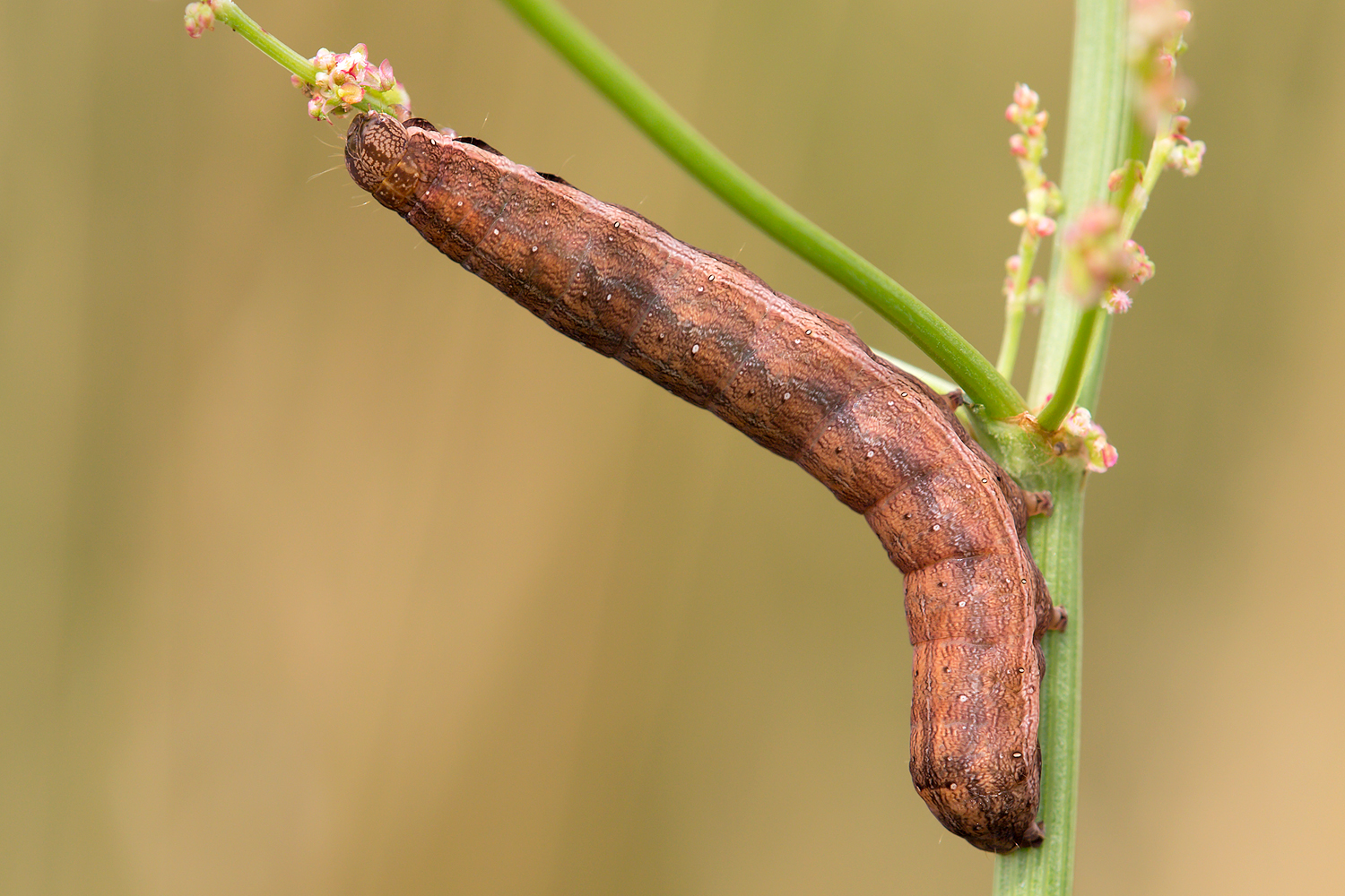 Caterpillar (2nd generation) of the moth Dypterygia scabriuscula, feed on sorrel (Rumex acetosa).